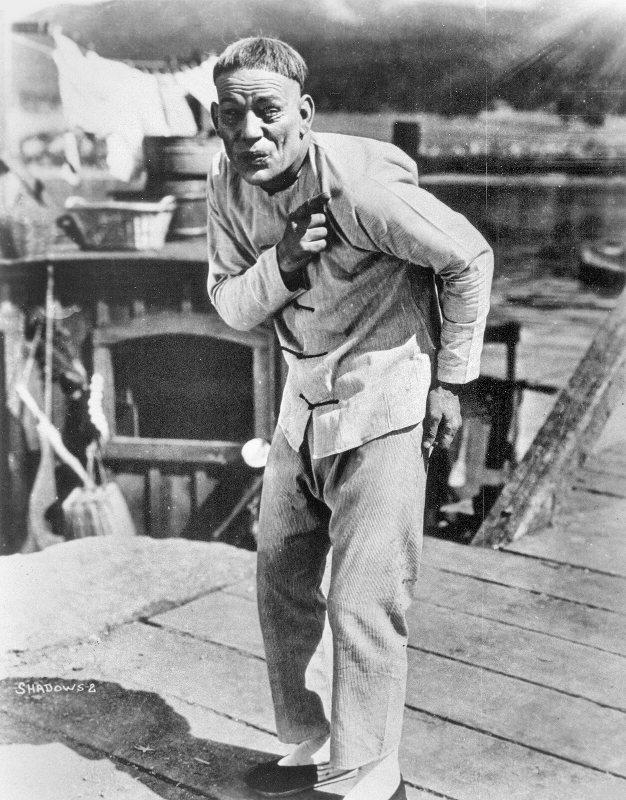 Lon Chaney as Chinese immigrant Yen Sin in the film Shadows (1922). This film was shot on location in Balboa. There are no known copyright restrictions on this image. All future uses of this photo should include the courtesy line, "Photo courtesy Orange County Archives." Comments are welcome after reading our Comment Policy. Photo collected during research for the Orange County Archives' 2011 exhibit, "On Location: Silent Film In Orange County."